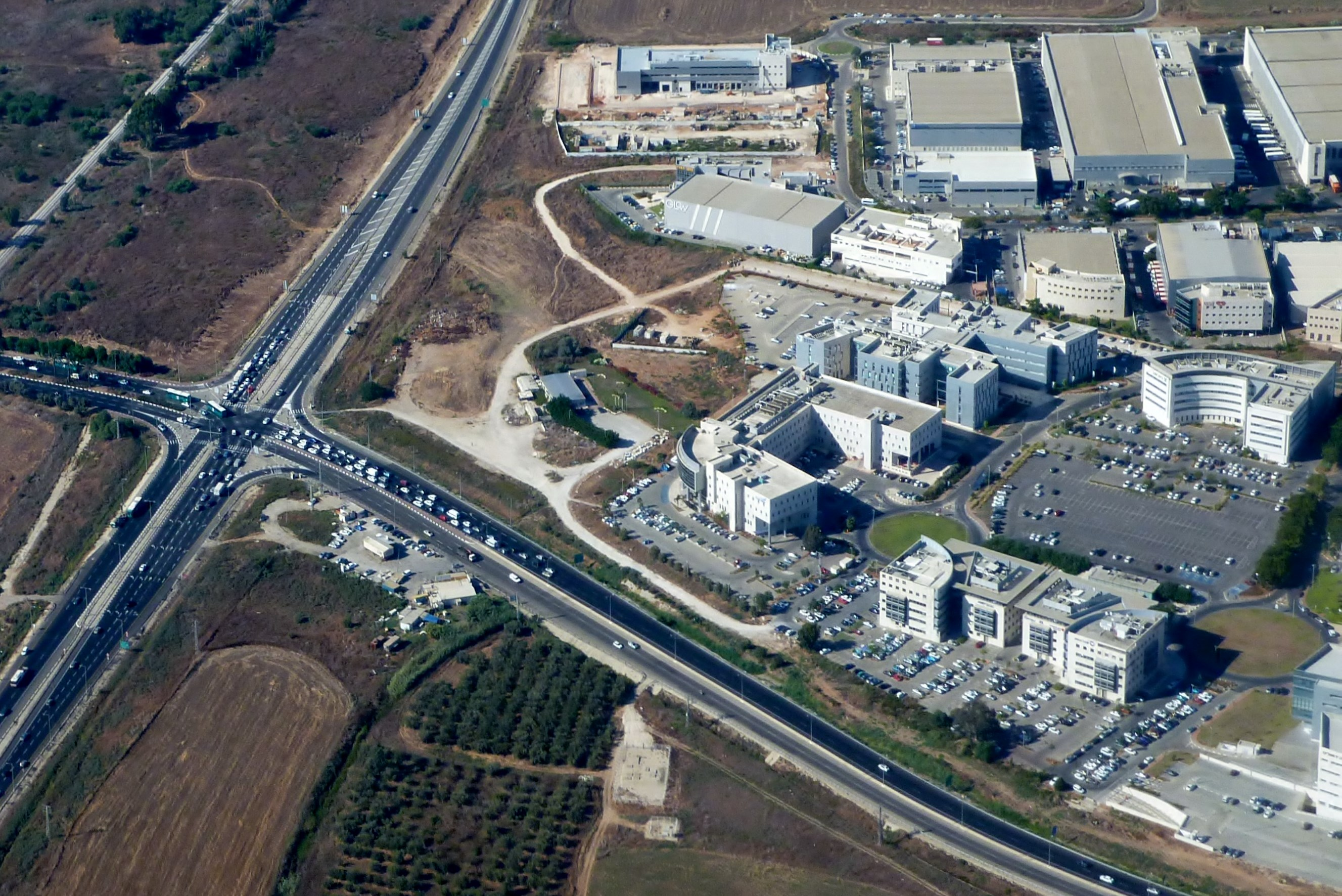 Aerial view of Airport City business park in Israel